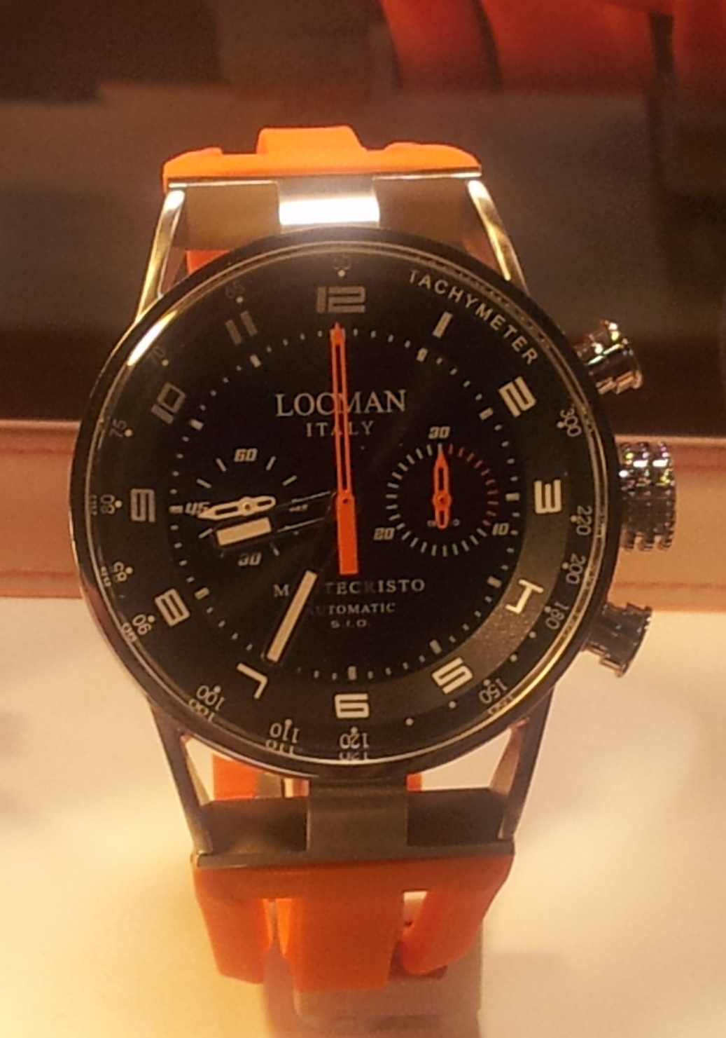 Locman Montecristo watch